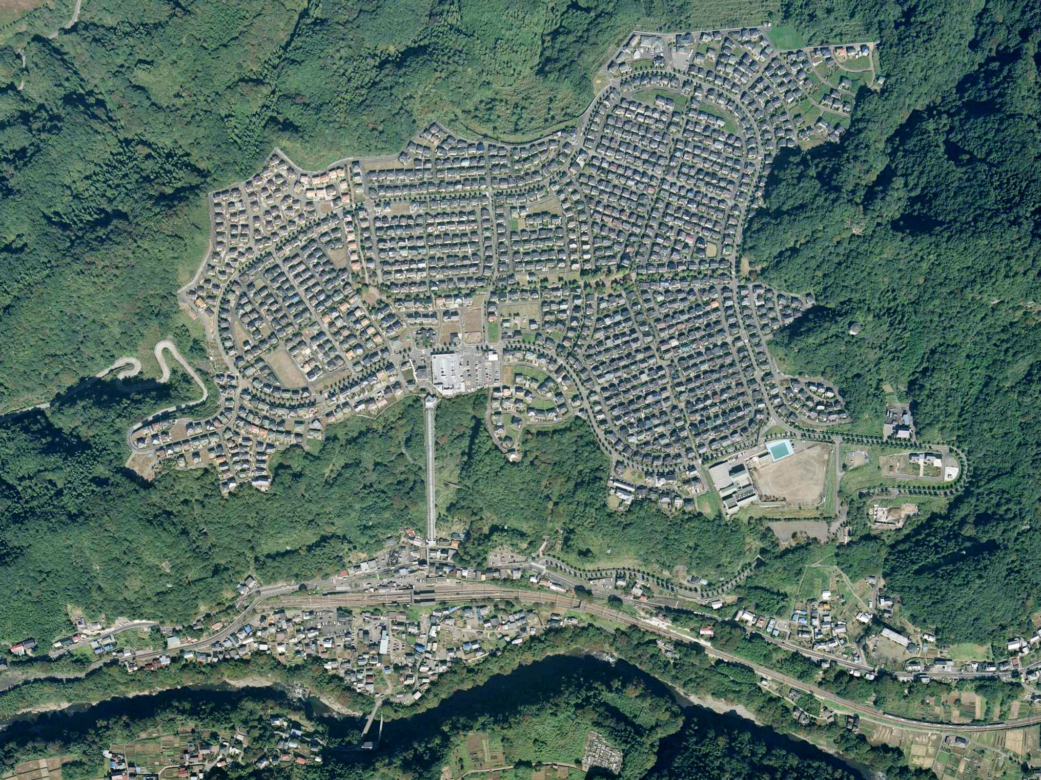 Commore Shiotsu, Uenohara, Yamanashi.